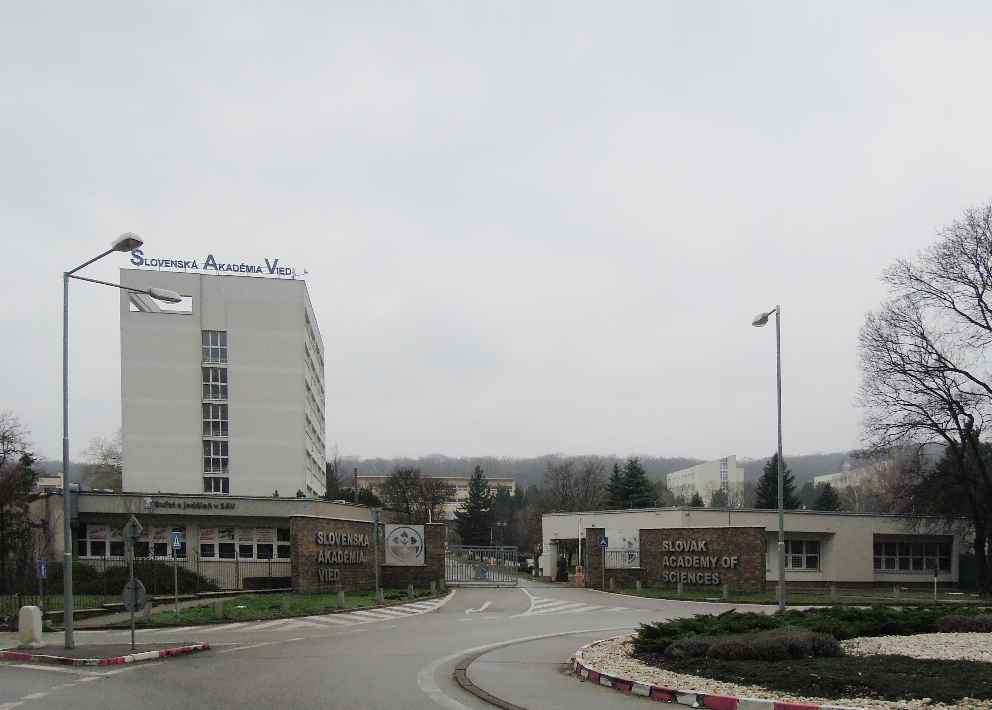 Main gate of the Slovak Academy of Sciences campus in Bratislava, Dúbravská cesta street.